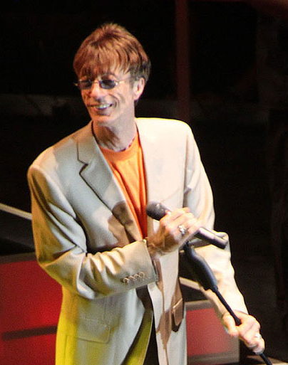 Robin Gibb in concert 2009 Mai Leipzig